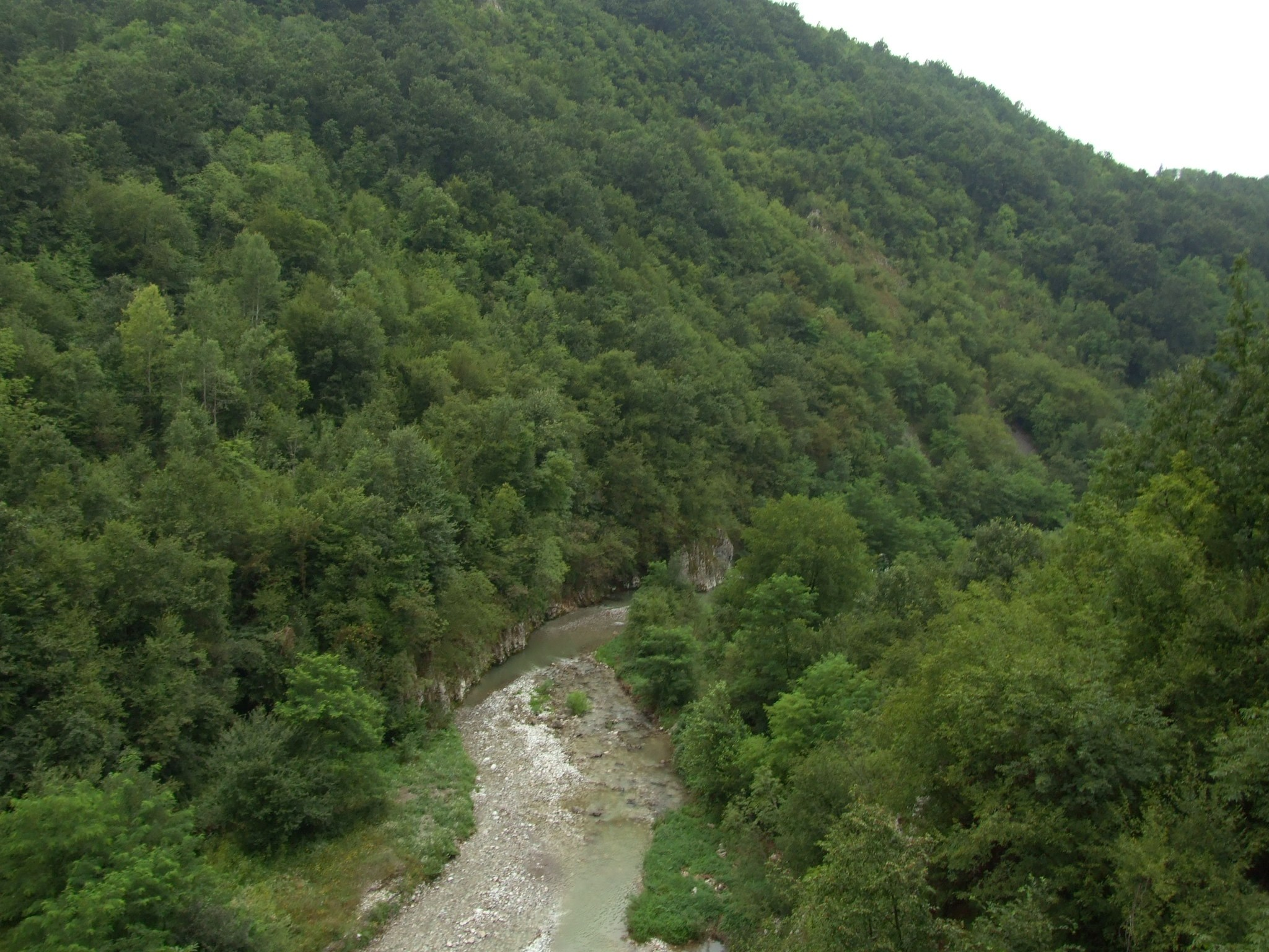 Gradac river canyon near Lelić, Kolubara district, Serbia